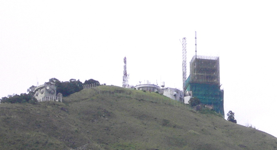 The constructing TV Tower of TVB in Tsz Wan Shan, HK